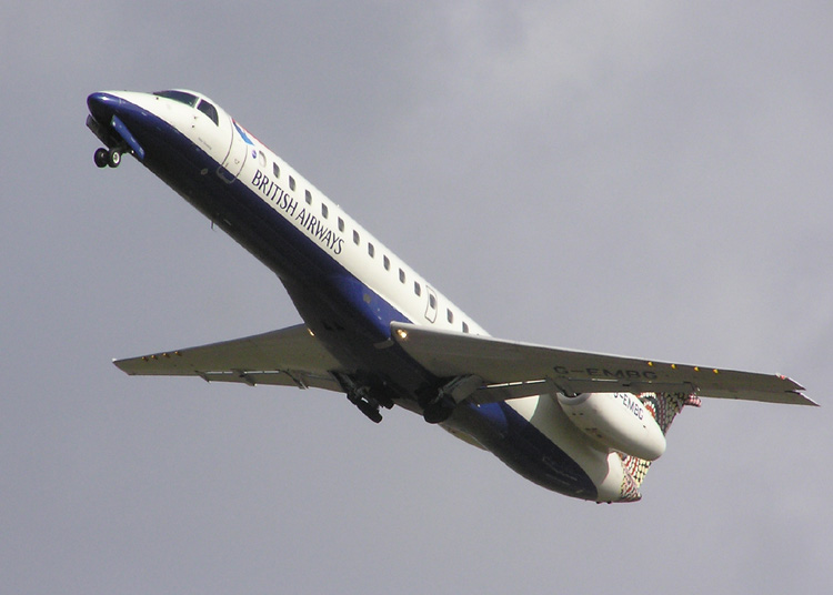 Embraer ERJ 145 (G-EMBG) de British Airways despegando de Bristol, Inglaterra